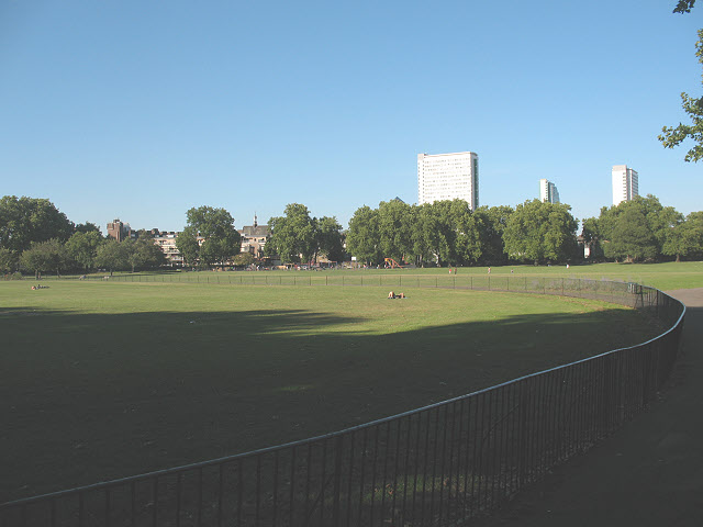 Deptford Park. A summer evening view of this oasis among a network of busy roads and railway lines. The three towers in the distance include the Aragon Tower 1406995